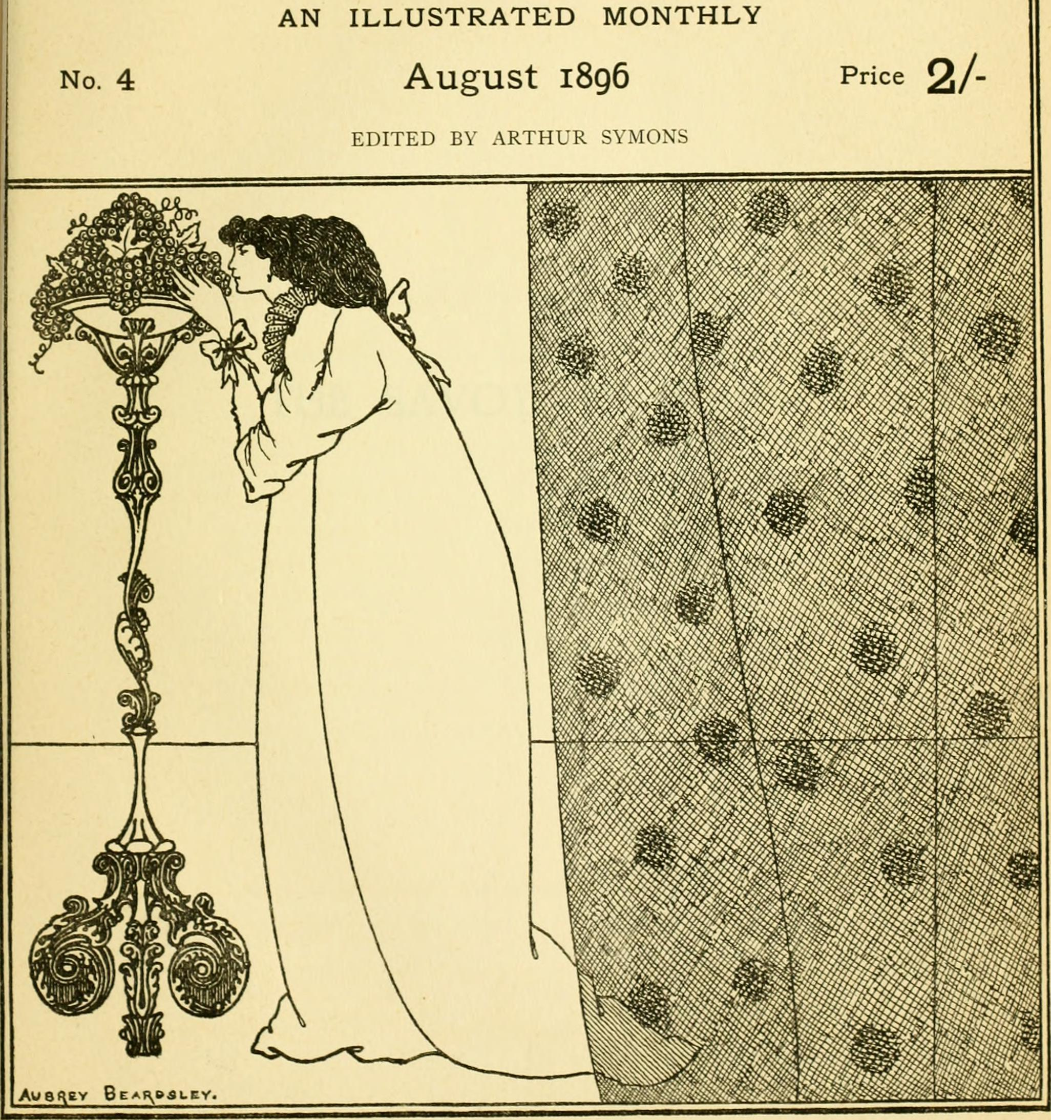 Title: The Savoy Year: 1896 (1890s) Authors: Symons, Arthur, 1865-1945 Beardsley, Aubrey, 1872-1898 Subjects: English literature Literature, Modern Art Publisher: London, L. Smithers Text Appearing Before Image: THE SAVOY AN ILLUSTRATED MONTHLY AugUSt 1896 Price 2/ EDITED BY ARTHUR SYMONS Text Appearing After Image: THE SAVOY—N° IV All communications should be directed to THE EDITOR OFTHE SaVOV, Effingfiam House, Arundel Street, Strand, London,W.C. MSS. sfiould be type-written, and stamps enclosed fortlieir return. THESAVOY No. 4 August 1896 EDITED BY ARTHUR SYMONS